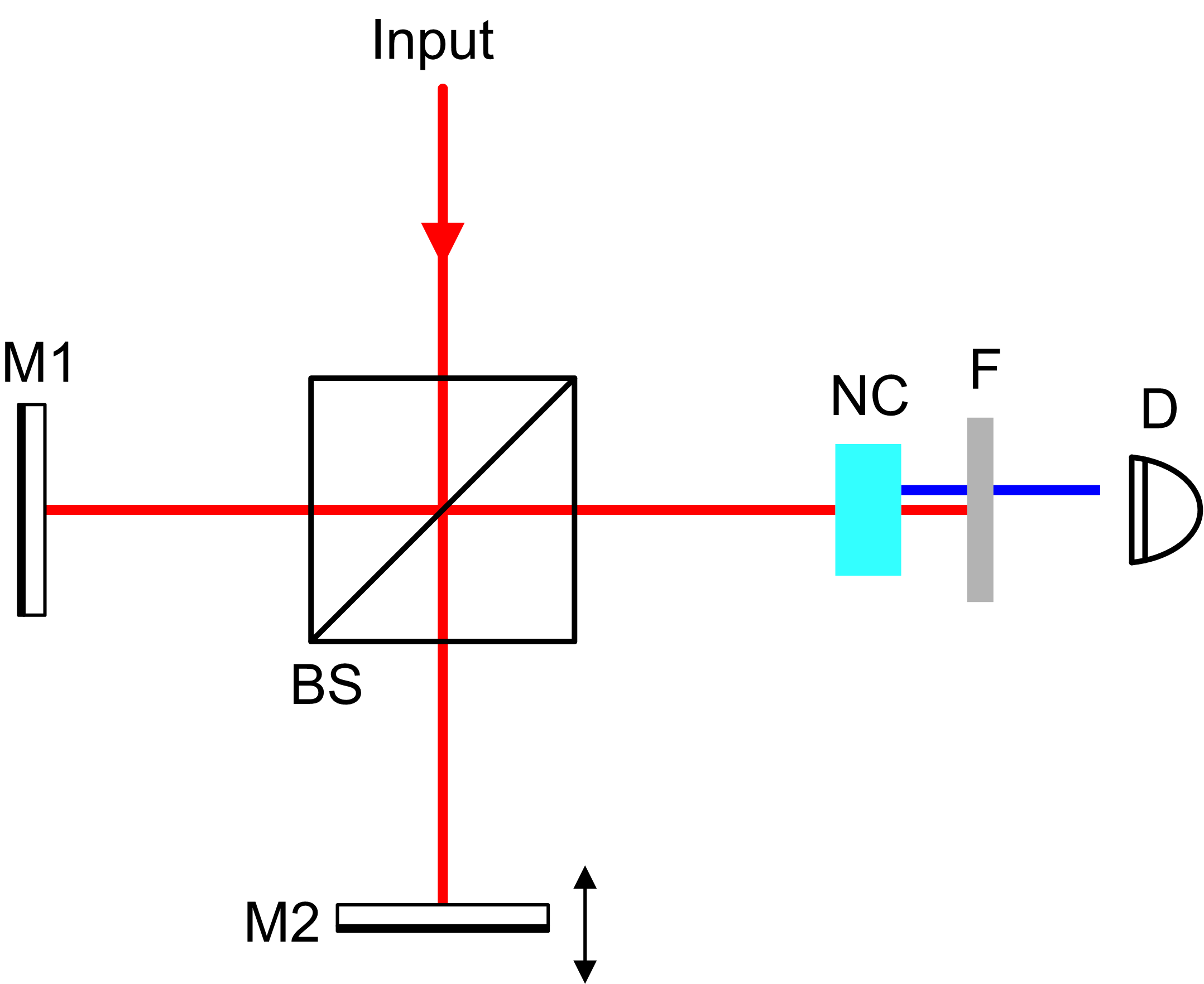 Schematic setup of an autocorrelator. BS: Beamsplitter, M1 and M2: Mirrors, M2 is placed on a delay line, NC: Nonlinear crystal for SHG (e.g. BBO), F: Filter to suppress the fundamental light, D: Detector.